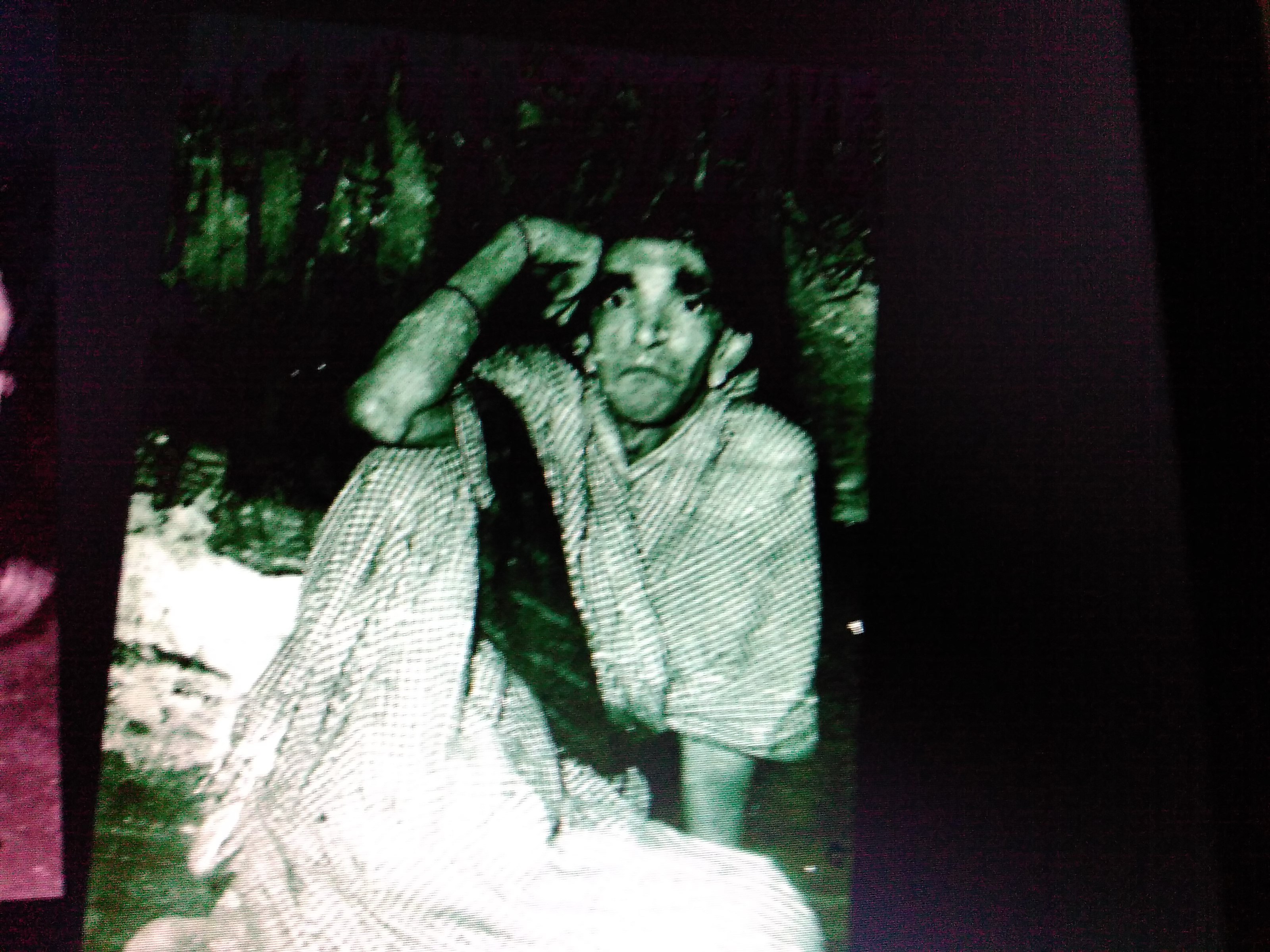 ಚಂದ್ರಾವಳಿ ವಿಲಾಸದಲ್ಲಿ -- ಅತ್ತೆಯಾಗಿ